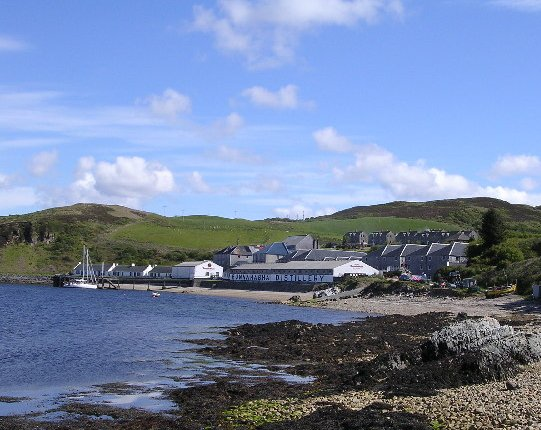 Looking across Bunnahabhain to the distillery.